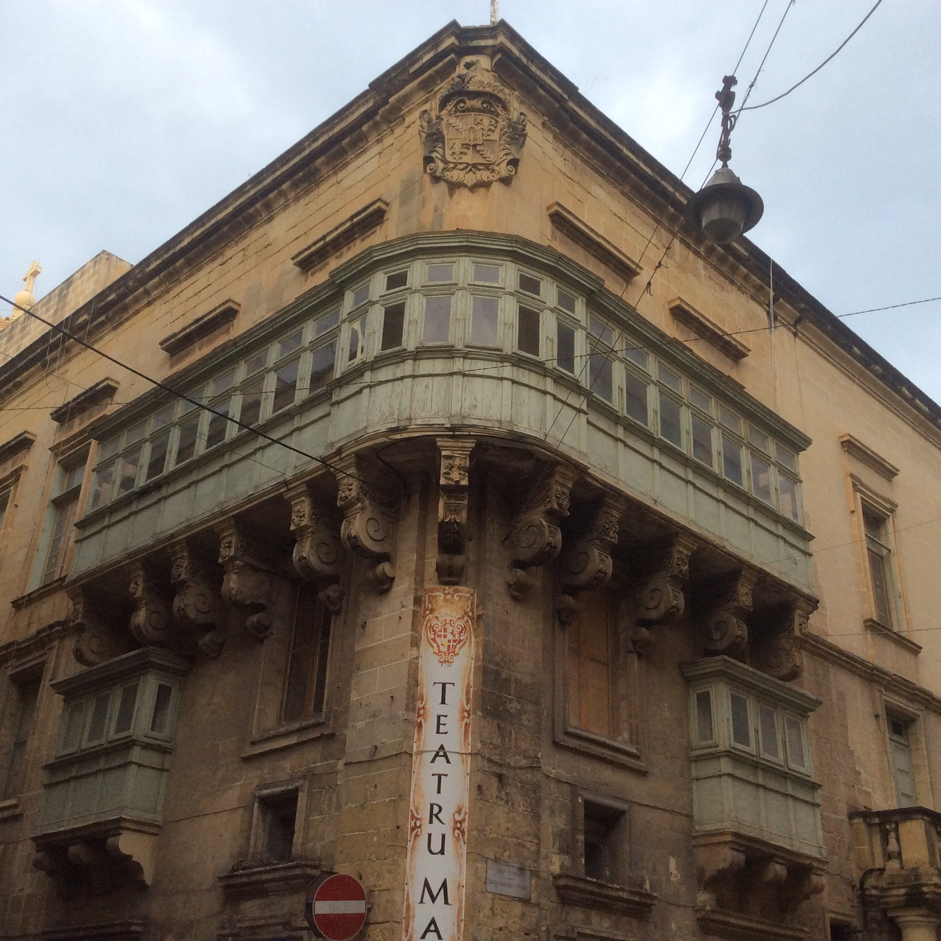 Palazzo Bonici Valletta, Malta